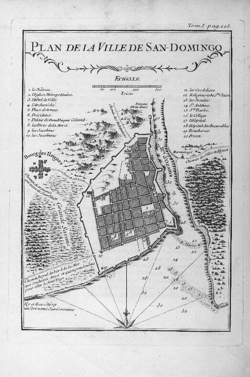 Map of the city of San Domingo by Antoine Humblot - 1730